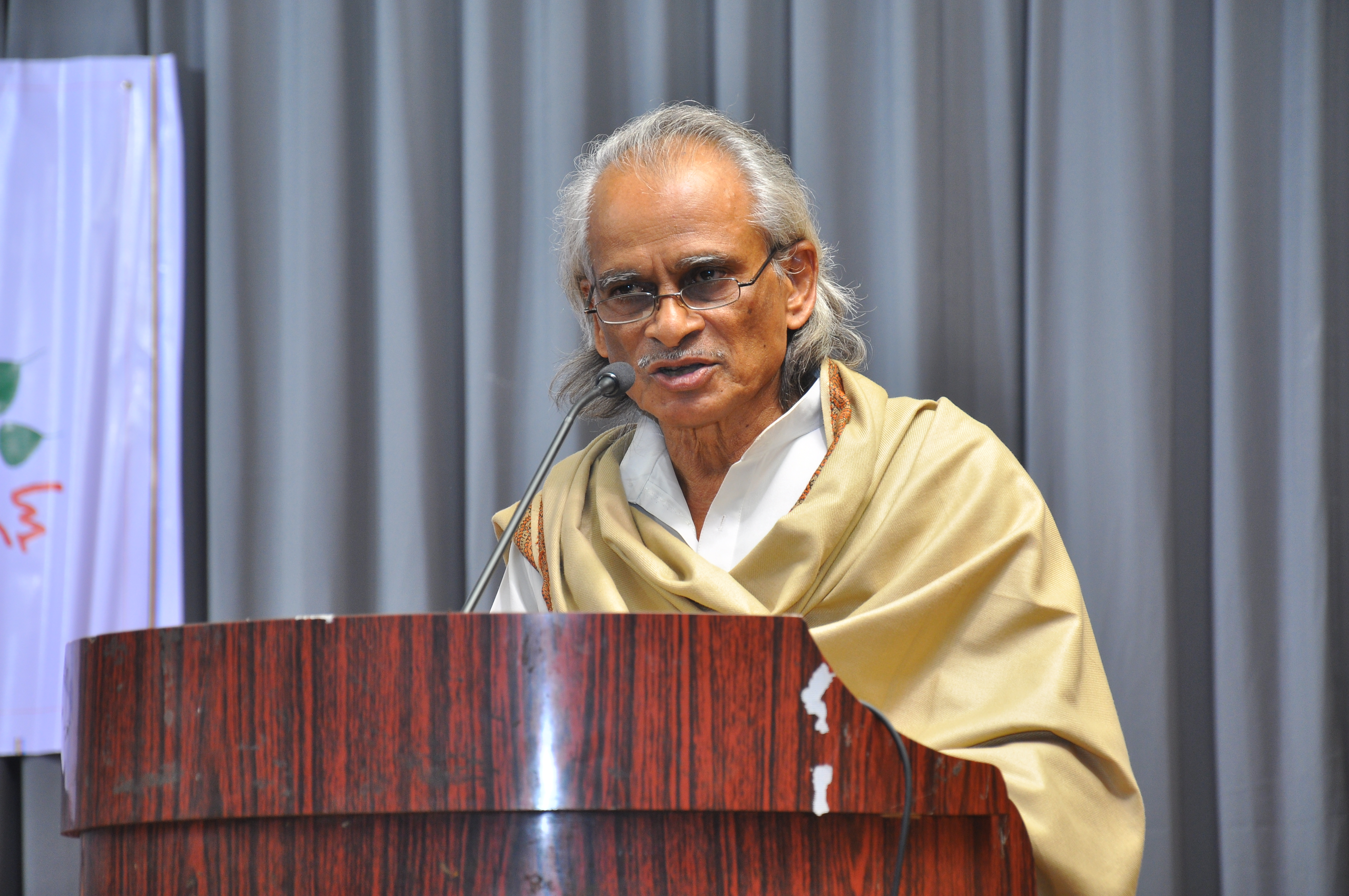 K Shiva Reddy at KNY Patanjali complete works volumes book release program 29 Dec 2012 Hyderabad